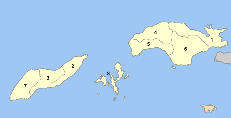 Map of Samos prefecture (Greece) with administrative divisions (municipalities and communities) numbered in alphabetical order (in greek). Legend: 1. Δήμος Βαθέος - Vathy 2. Δήμος Αγίου Κηρύκου - Agios Kirykos 3. Δήμος Ευδήλου - Evdilos 4. Δήμος Καρλοβασίων - Karlovasi 5. Δήμος Μαραθοκάμπου - Marathokambos 6. Δήμος Πυθαγορείου - Pythagorio 7. Δήμος Ραχών - Raches 8. Δήμος Φούρνων Κορσεών - Fourni Korseon